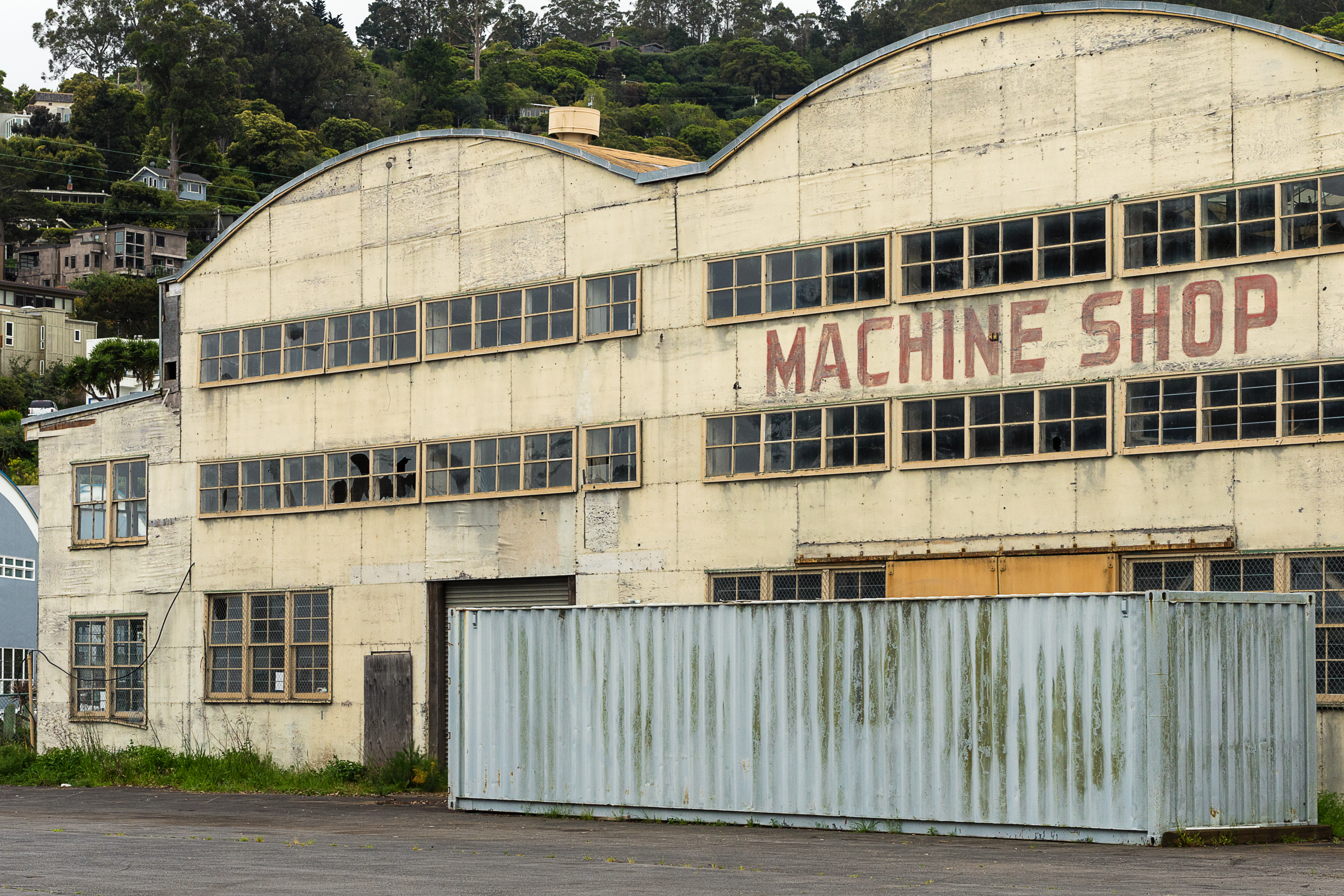 Marinship Machine Shop on Liberty Ship Way in Sausalito, California. Marinship was a bustling World War II shipyard where 22,000 workers built Liberty Ships and tankers. In 1950, the building was converted to a geotechnical testing laboratory. The lab closed in 1997 and the U.S. Department of Veterans Affairs acquired the 27,500-square-foot structure in 2006. It has been dormant since.